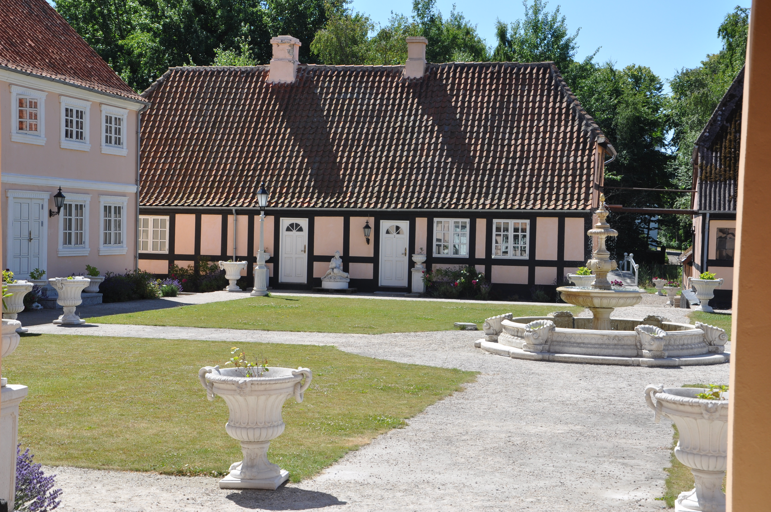 Skrøbelev Gods Manor house